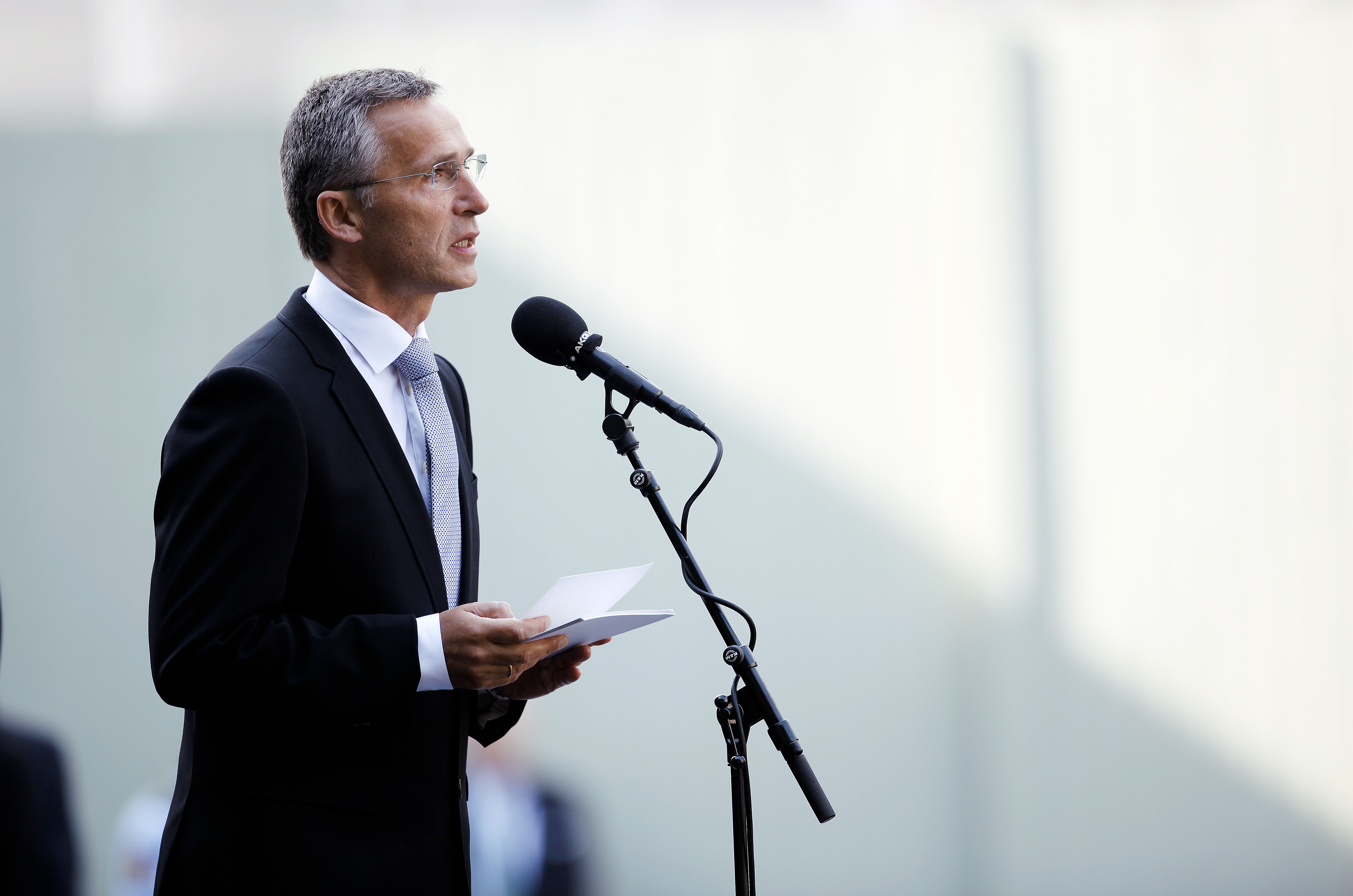 Prime Minister Jens Stoltenberg gives a speech during a ceremony commemorating the 22 July 2011 terrorist attacks in Norway